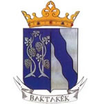 Coat of arms of Baktakék, Hungary